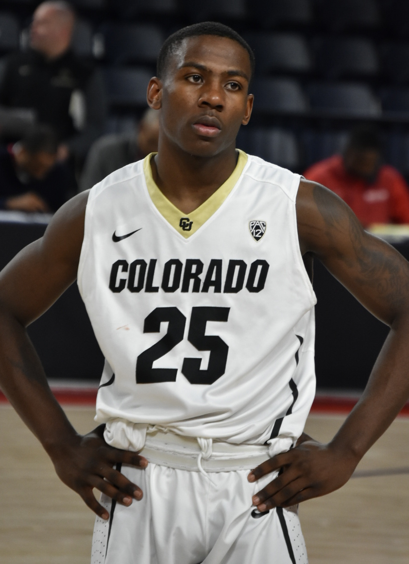 Game 3 of the 2017 Paradise Jam featured the Colorado Buffalos against the Quinnipiac Bobcats